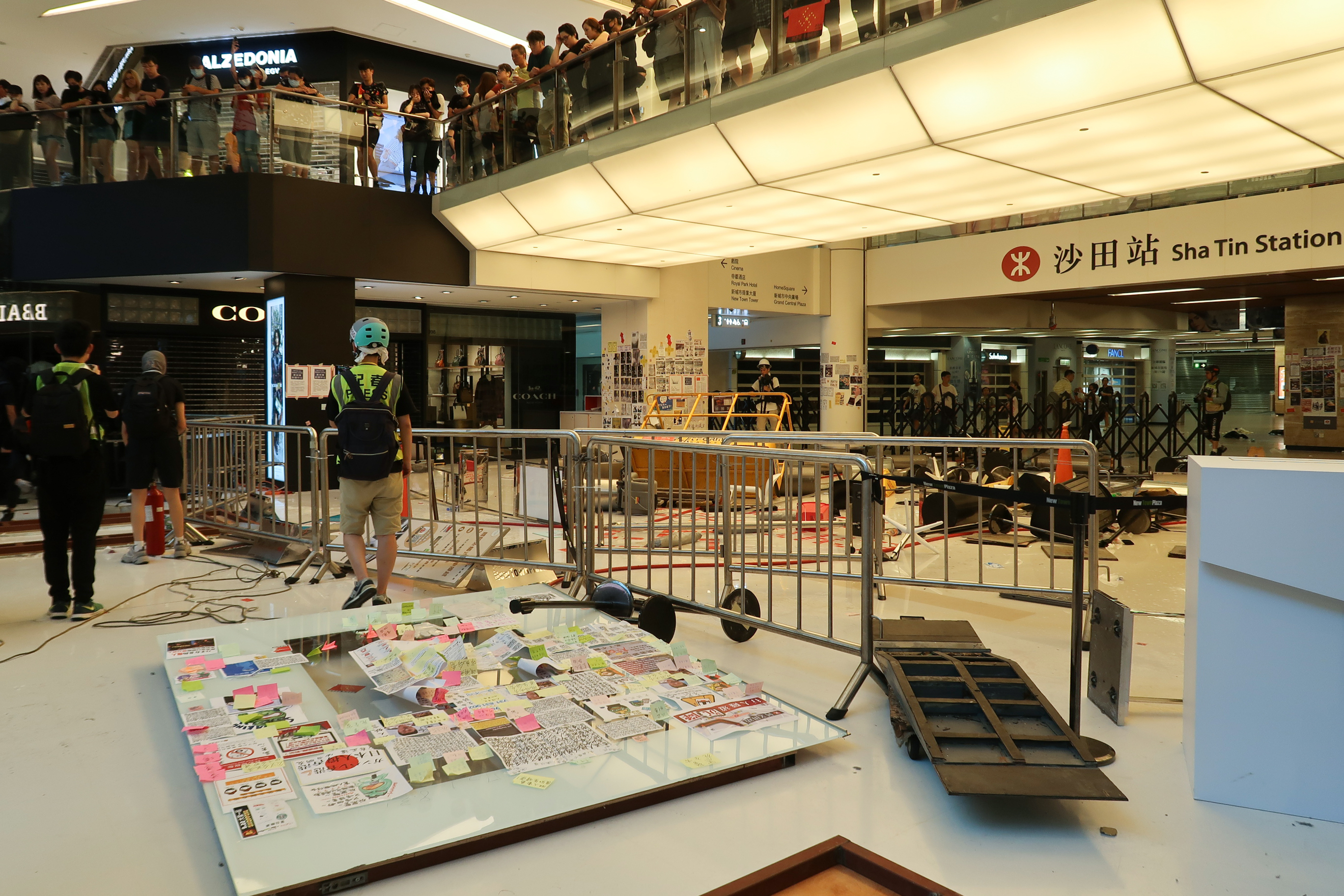 New Town Plaza Shatin Station entrance roadblock